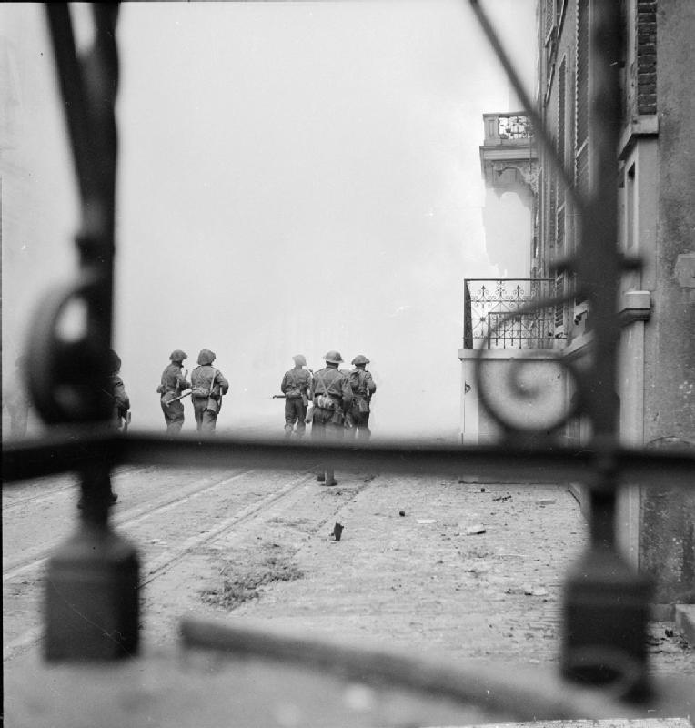 The British Army in North-west Europe 1944-45 Troops of the 2nd Essex Regiment patrol the streets in Arnhem, 14 April 1945.